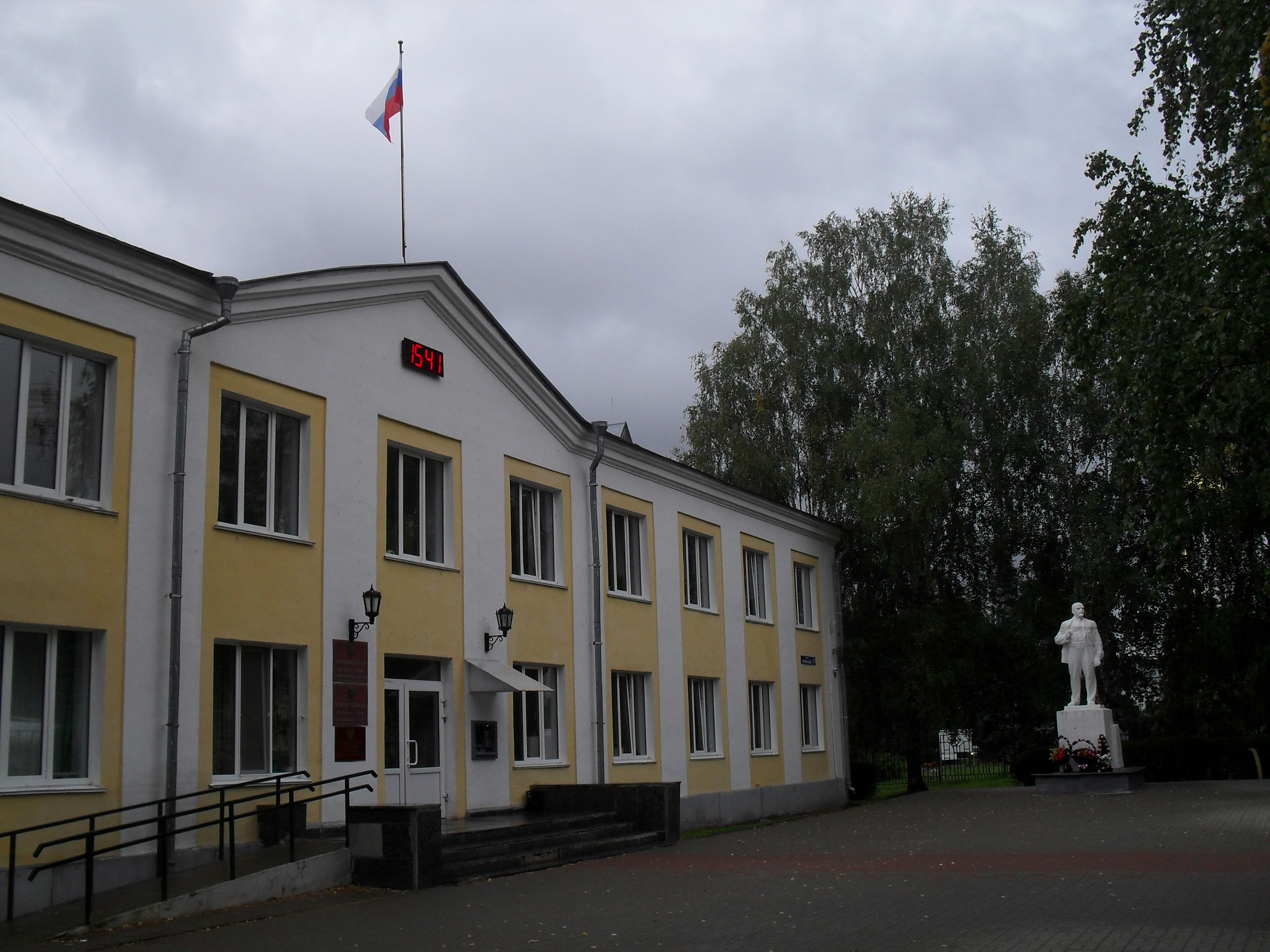 Diveyevsky District administration building